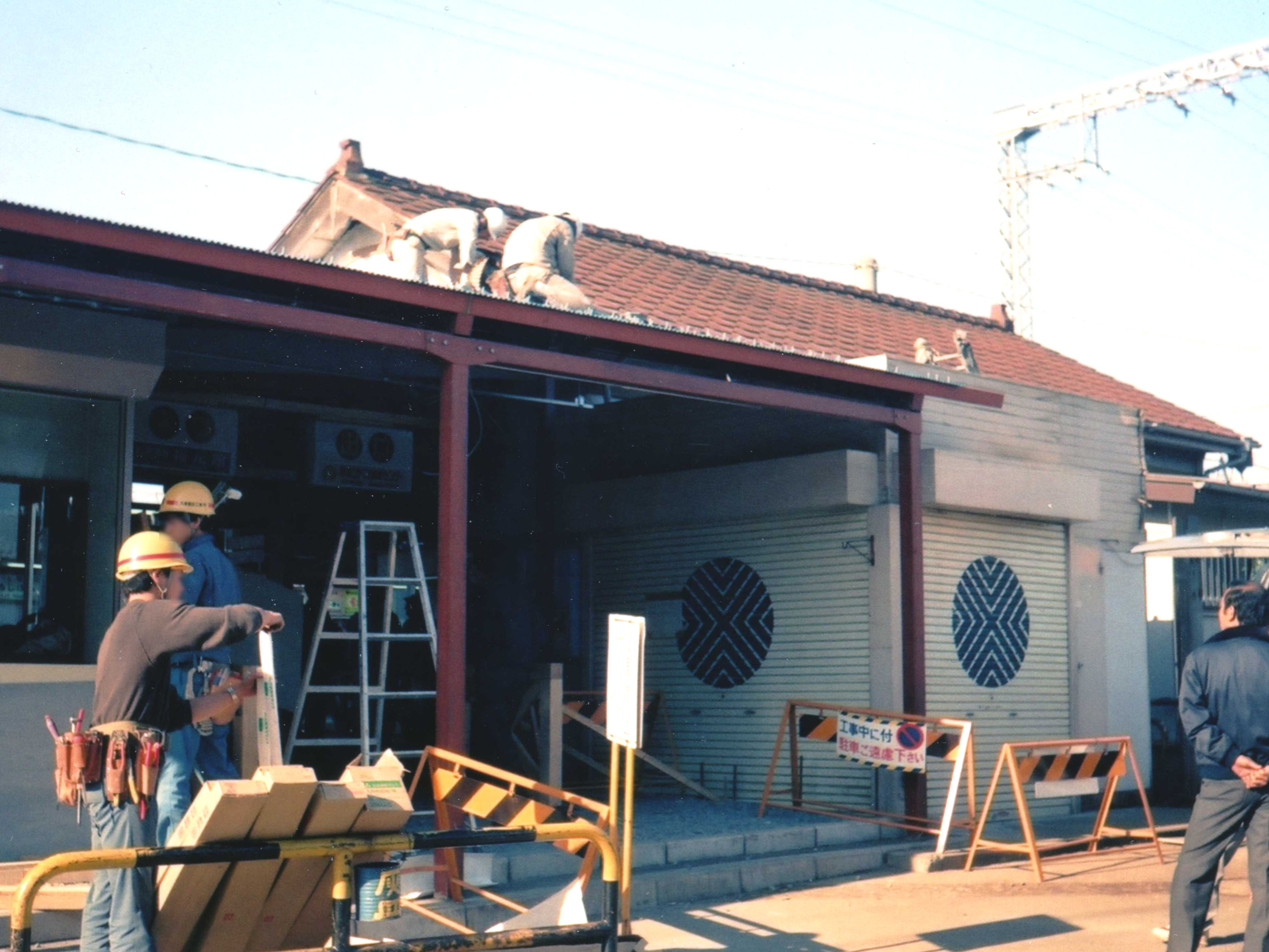 Aiko-ishida Sta.